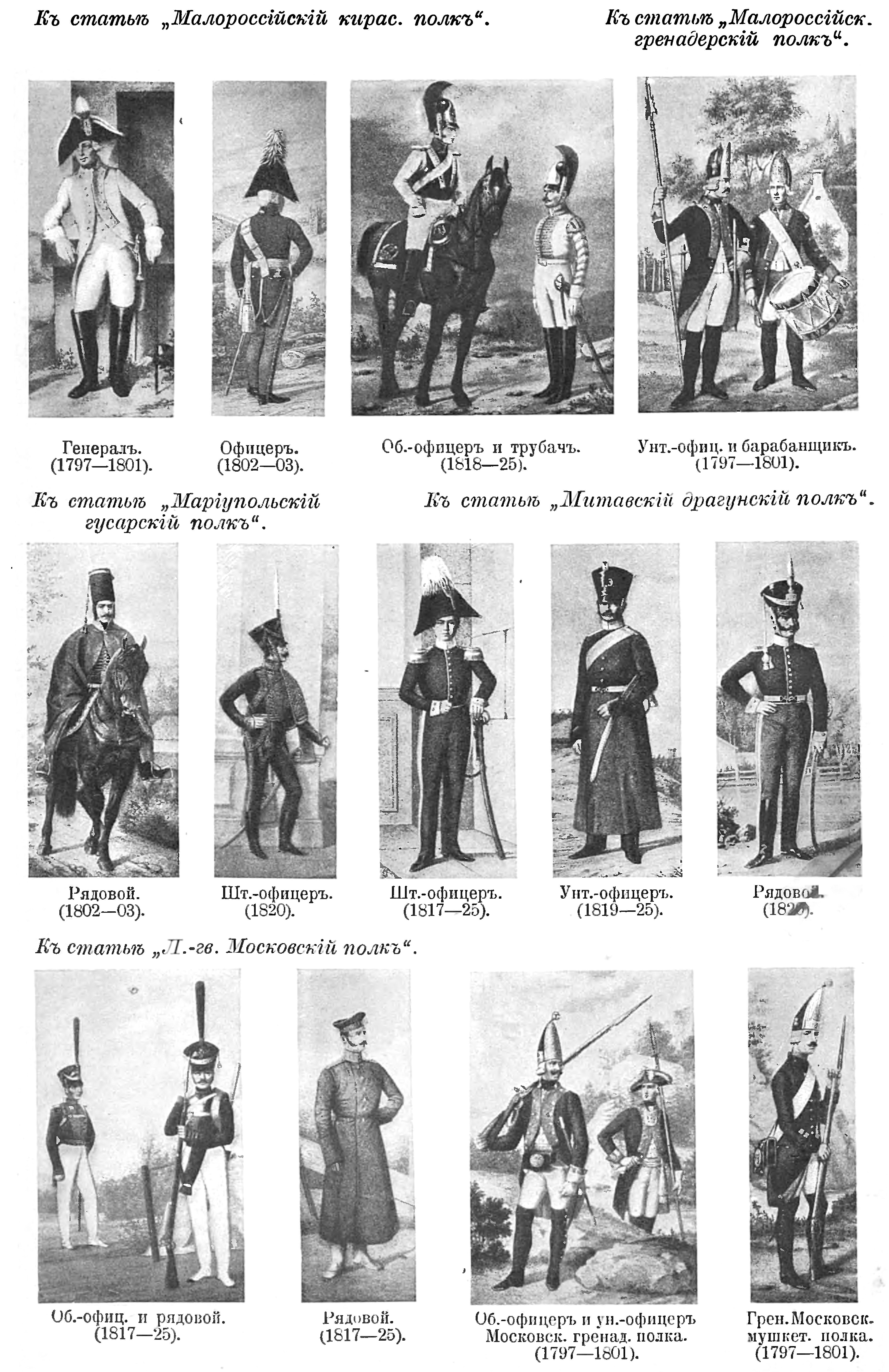 Cavalry Regiments of the Imperial Russian Army